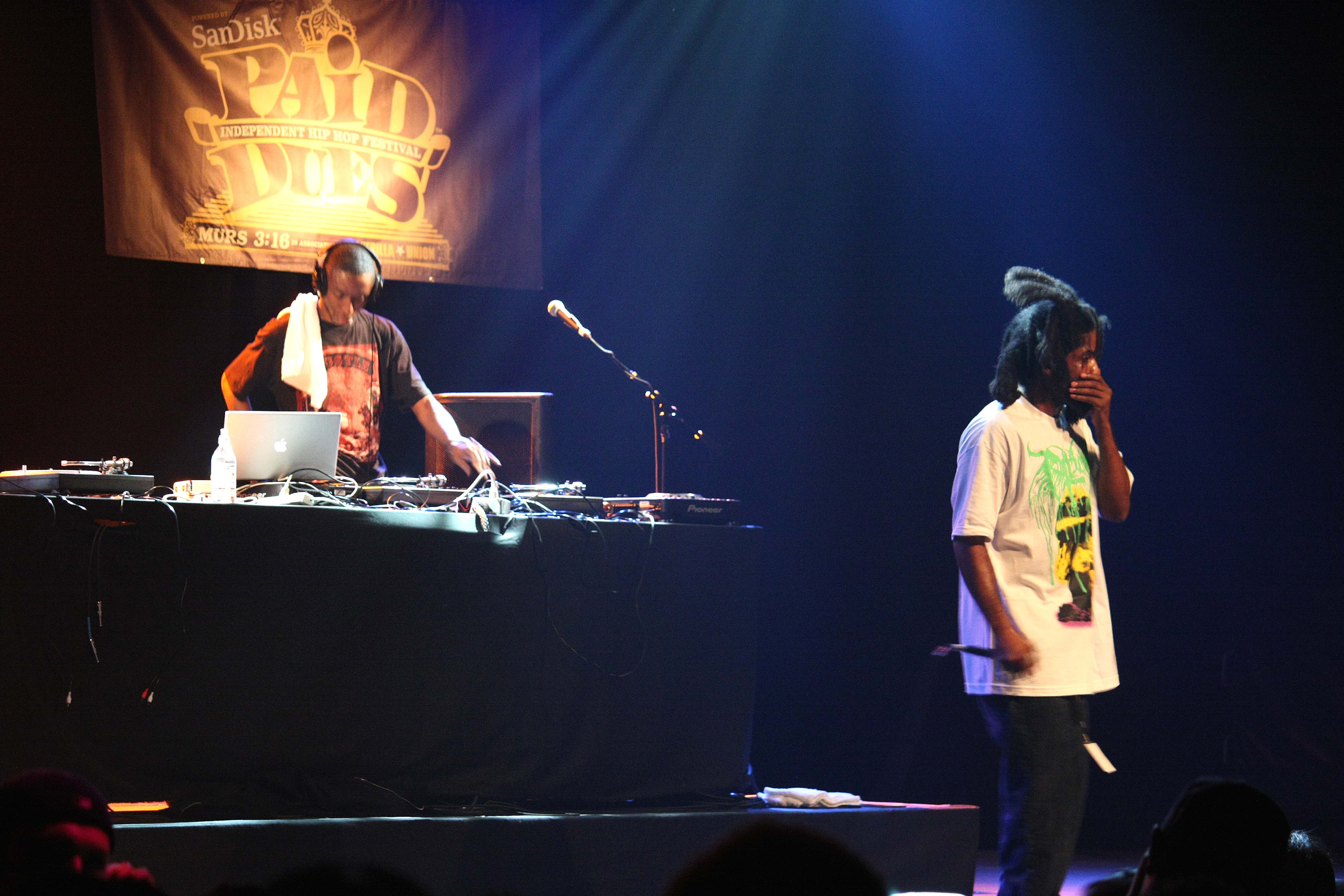 9th Wonder (left) and Murs performing at the Paid Dues hip hop festival at the Nokia Theatre in New York City.